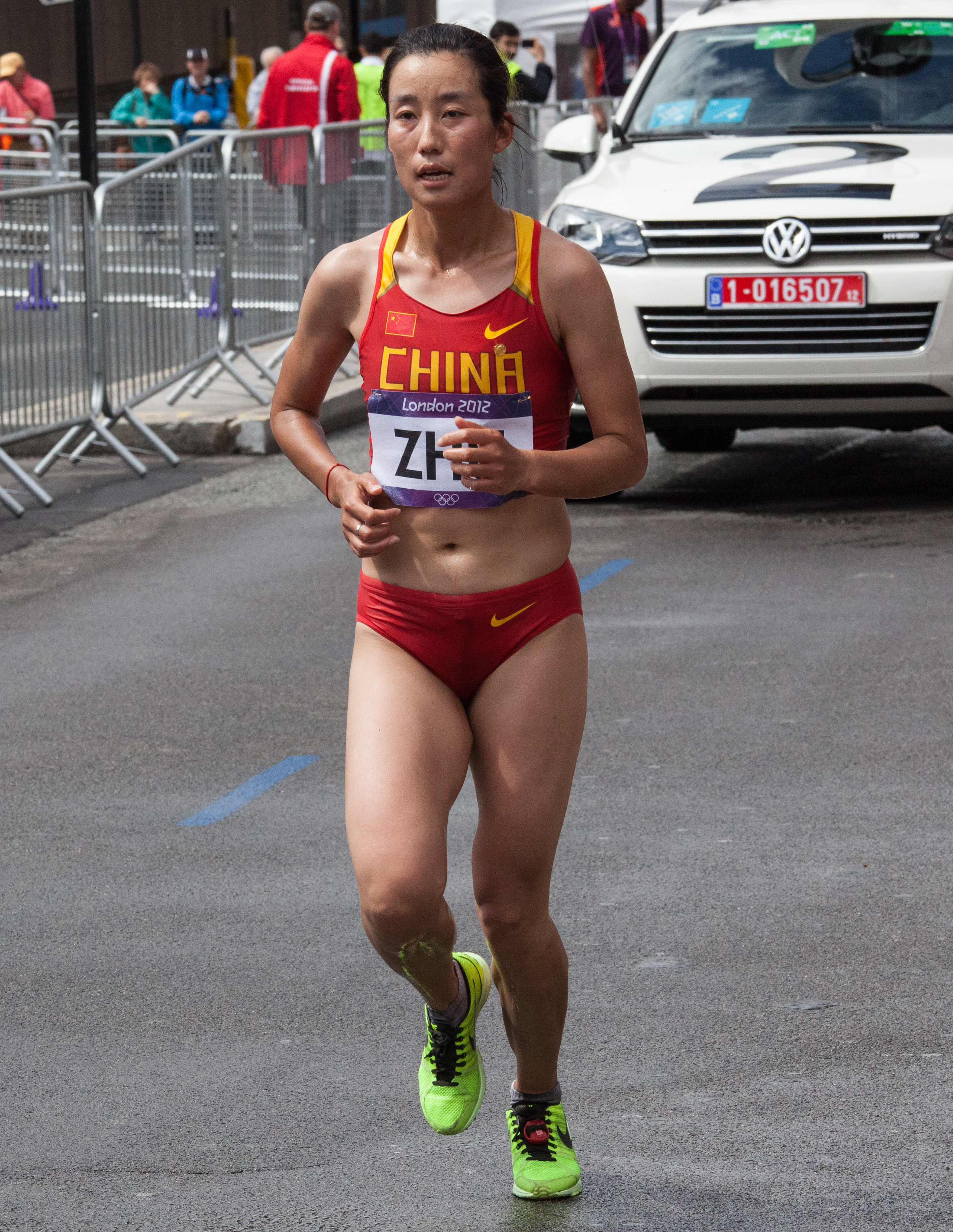 The women's marathon at the 2012 Olympic Games in London was held on the Olympic marathon street course on 5 August 2012.